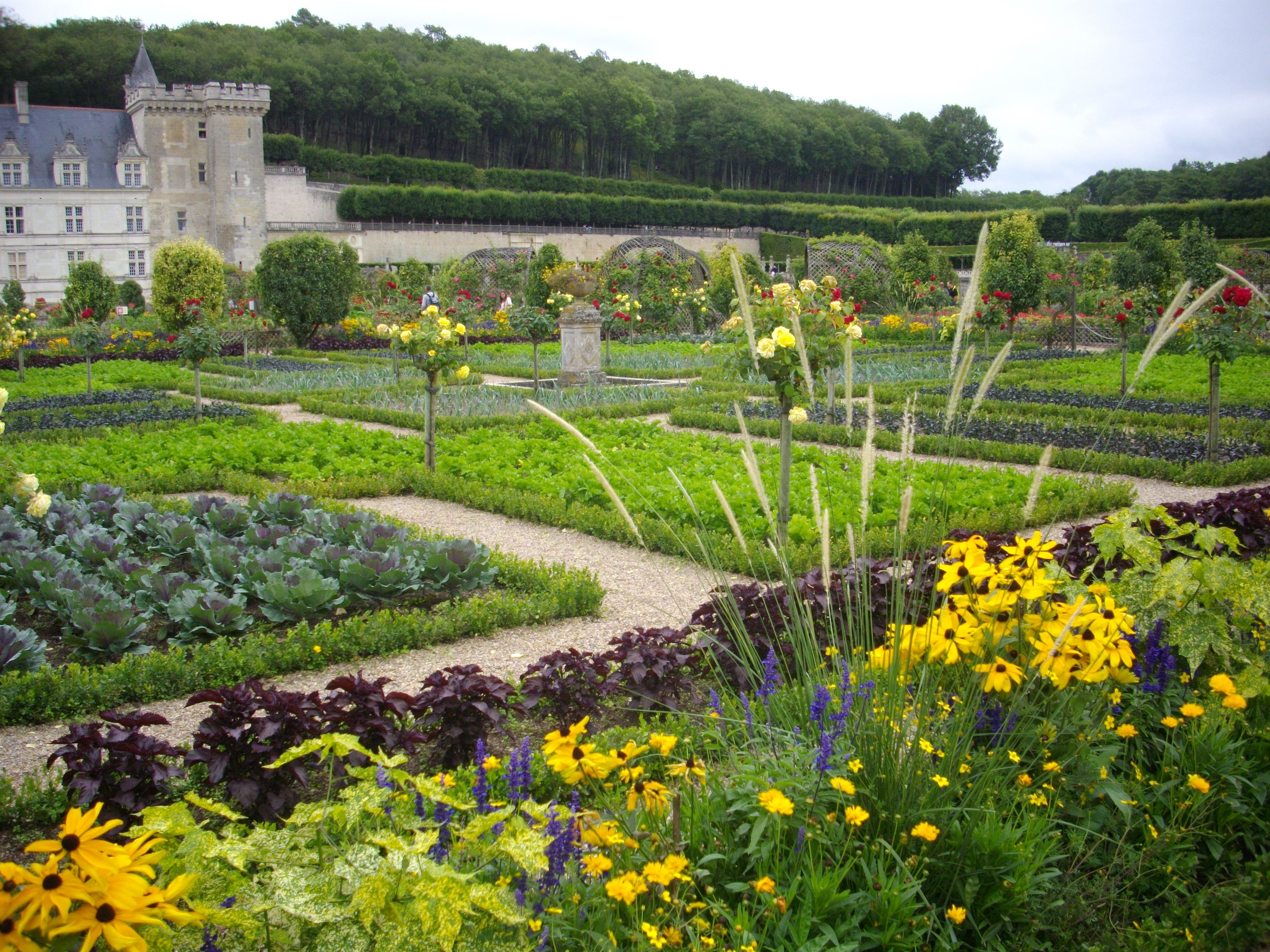 Gardens of Villandry castle (Indre-et-Loire, France) : the vegetable gardens .